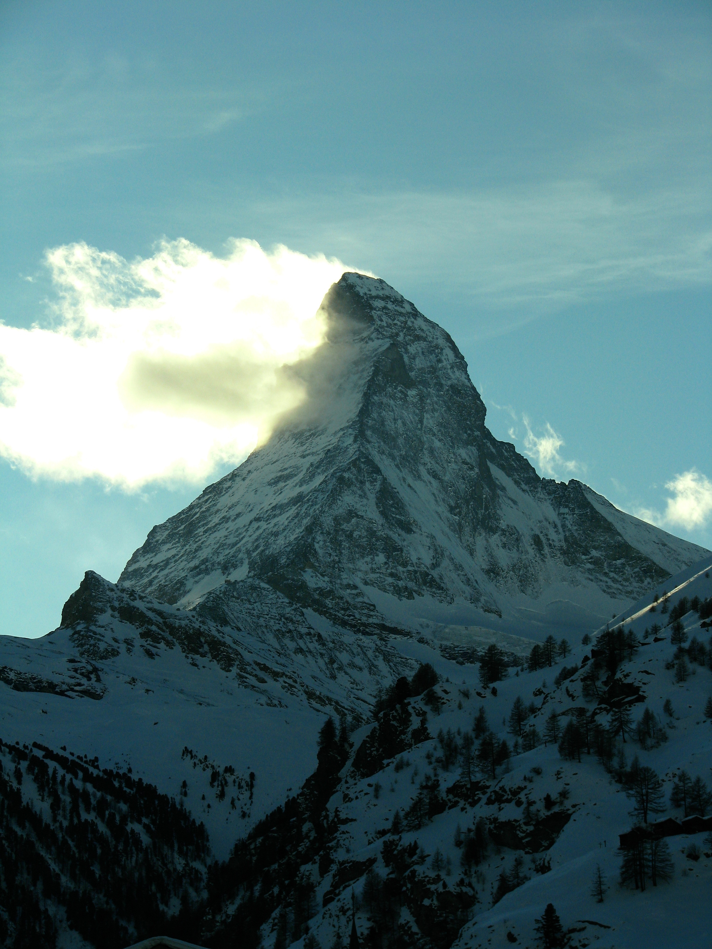 mount Matterhorn located in Swiss Alps near Zermatt. Also Matterhorn is known as Cervin in Italy.